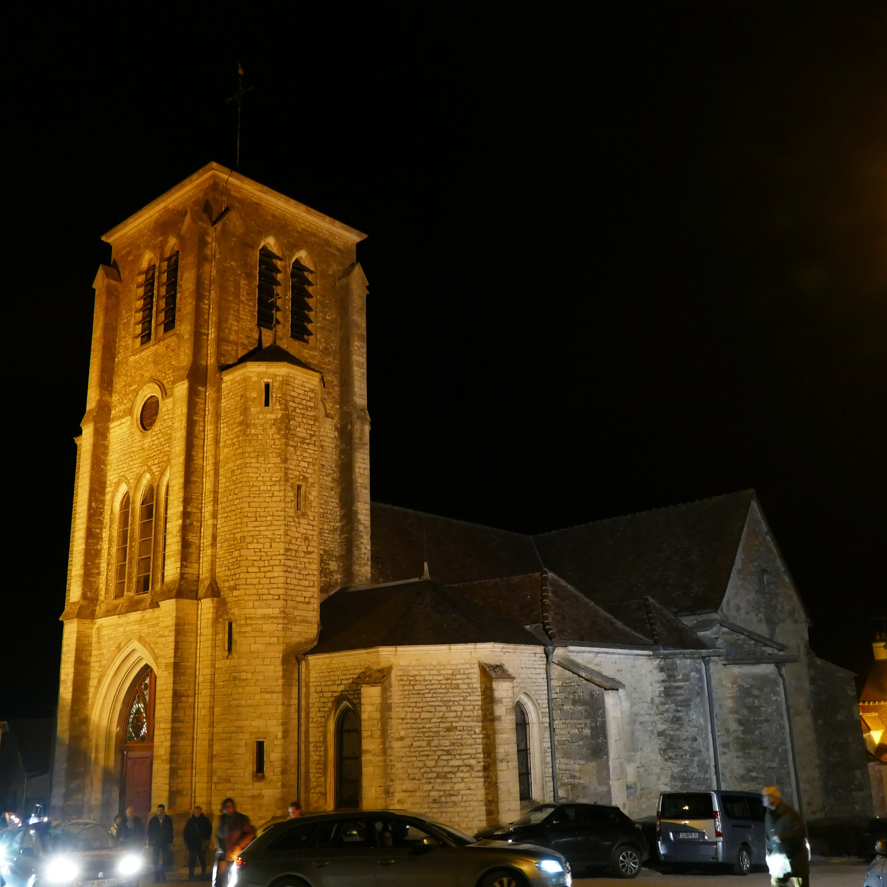 Sainte-Marie-Madeleine's church in Celles-sur-Ource (Aube, Champagne-Ardenne, France).